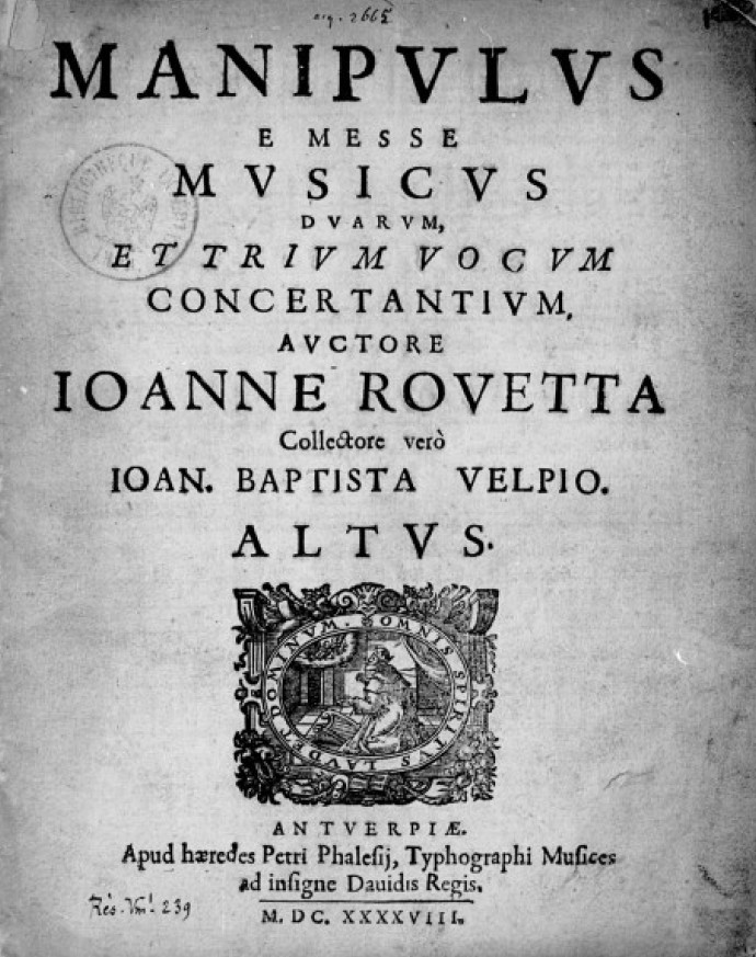 Title page of G. B. Rovetta's Manipulus et messe musicus (Anvers : heirs of Pierre II Phalèse, 1648).